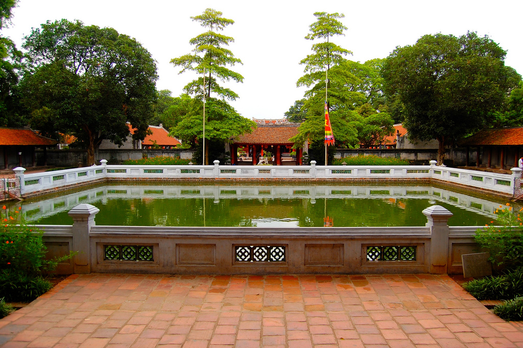 At the Temple of Literature...one of the last good examples of traditional Vietnamese architecture.